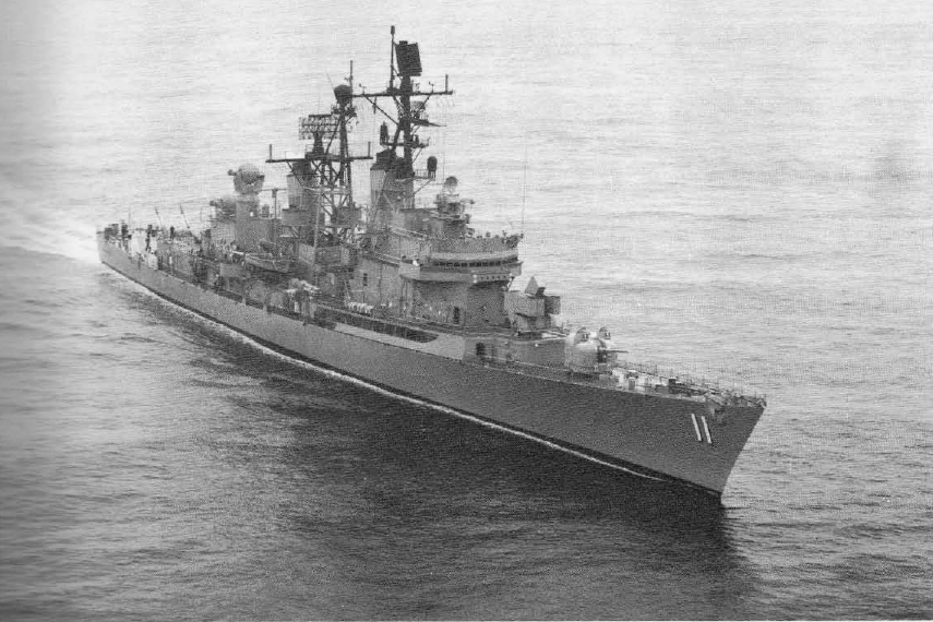 The U.S. Navy guided missile destroyer USS Mahan (DLG-11) during her deployment to the Western Pacific, in 1965-66.